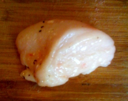 Tail fat from fat tailed sheep, essential ingredient in kebabs.